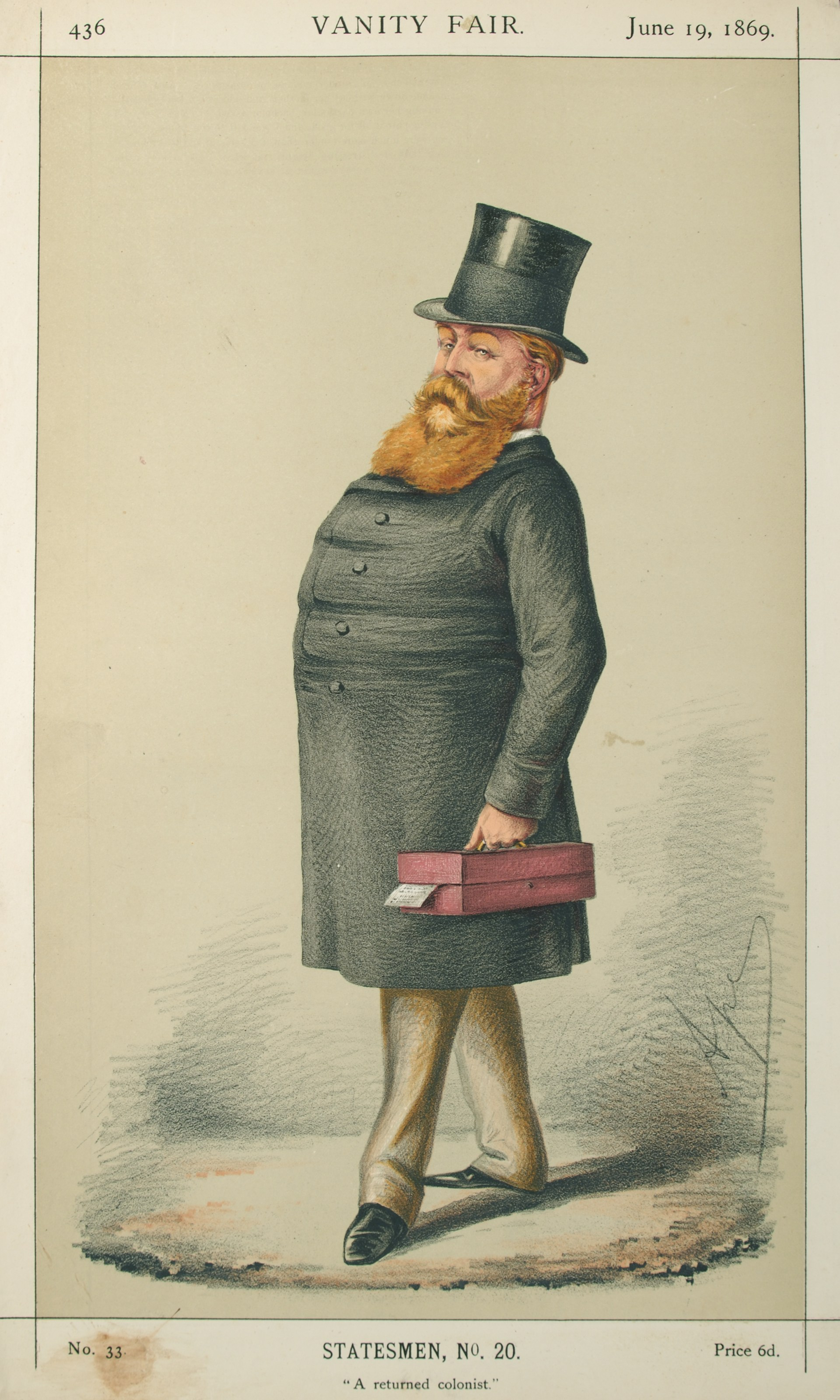 Statesmen No.20: Caricature of The Rt Hon Hugh C.E. Childers. Caption reads: "A returned colonist."